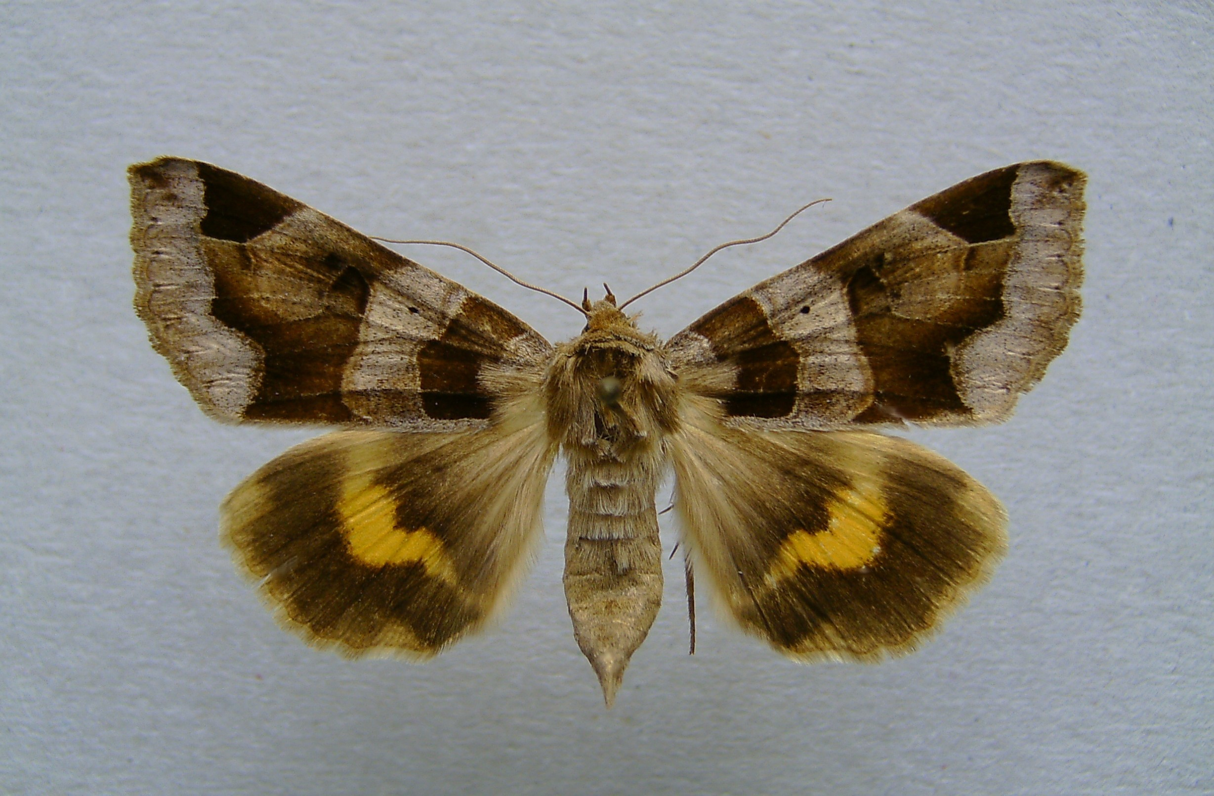 Chrysorithrum amata, Shkotovsky District